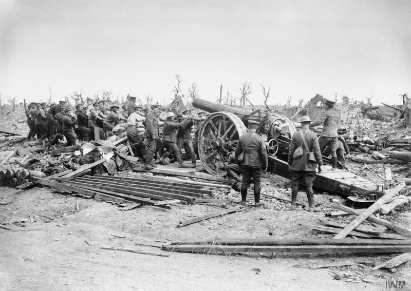 The Battle of the Somme, July-november 1916 Gunners of the 156th Siege Battery, Royal Garrison Artillery hauling a 8 inch howitzer into position at Longueval, September 1916.